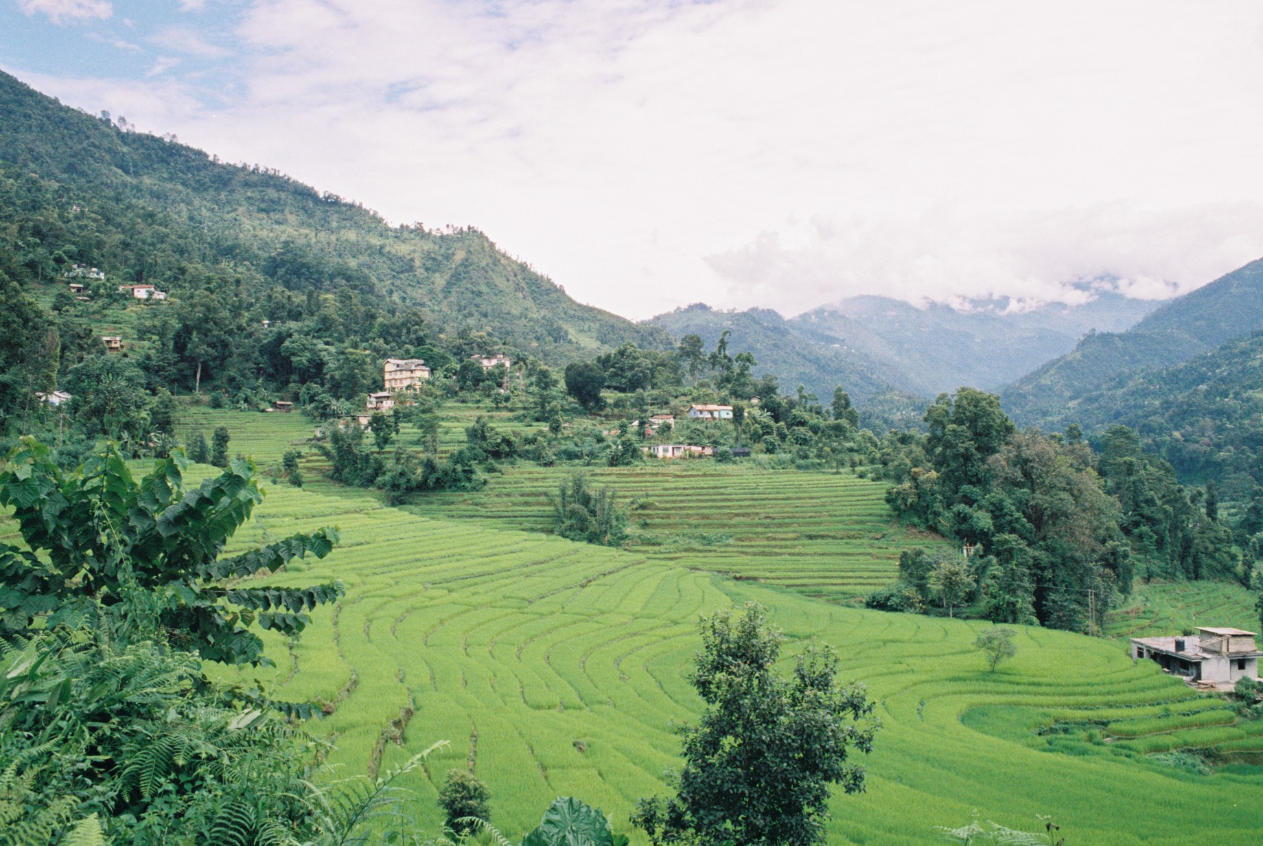 Sikkim is a northeastern state of India, north of West Bengal, east of Nepal. The state's economy is significantly agrarian. Rice paddy fields.